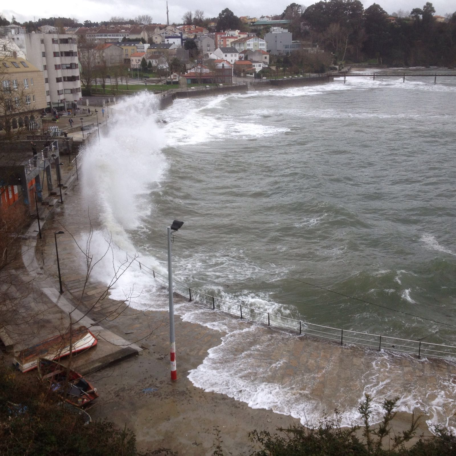 port of Santa Cruz